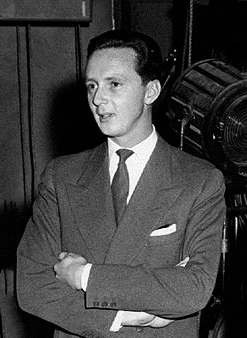 Italian-German prince and stage designer Heinrich of Hesse-Kassel, American actress Jeanne Crain and America singer and actor Frank Sinatra posing together. 1950s